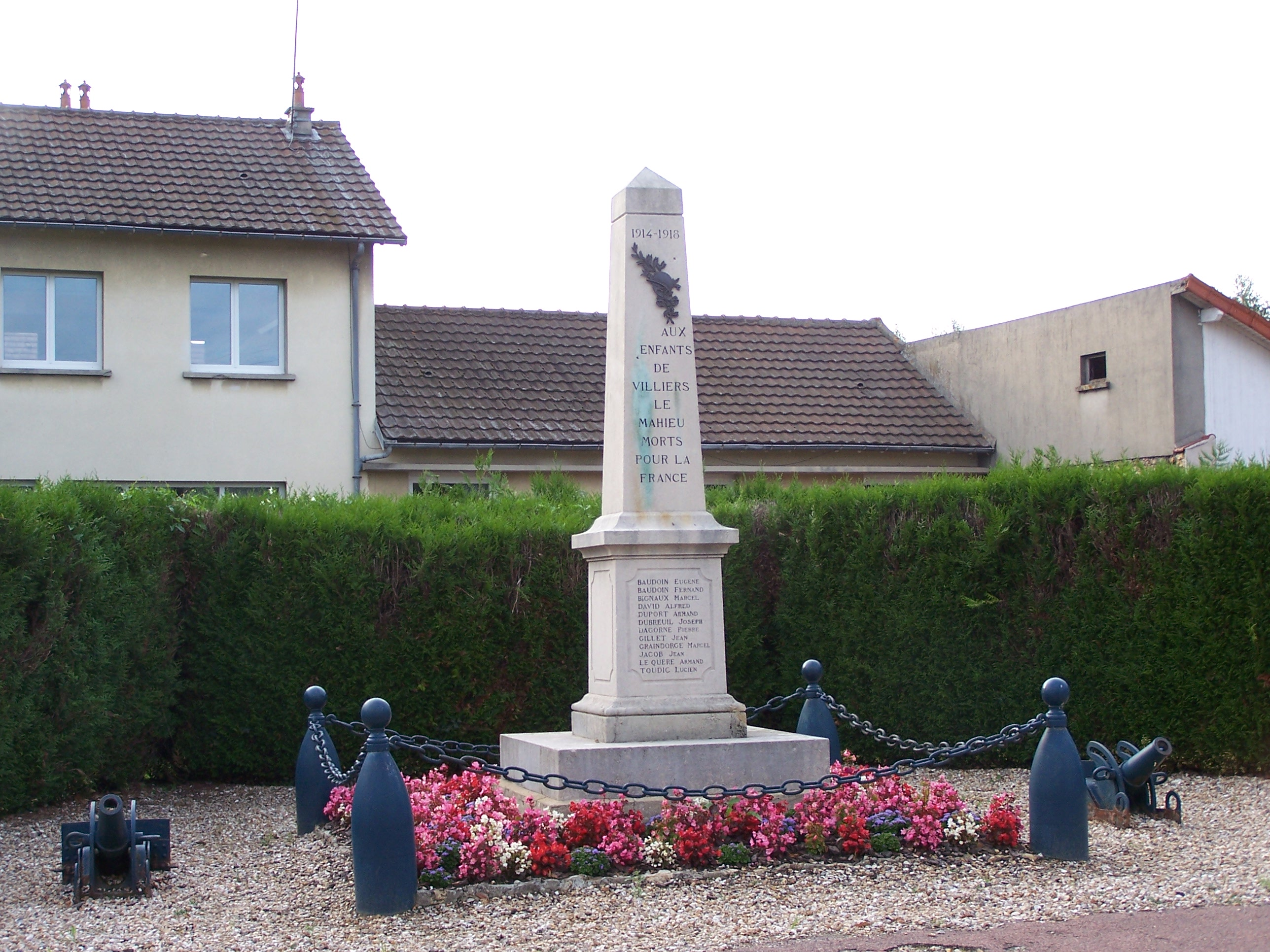 War memorial of Villiers-le-Mahieu (Yvelines, France)